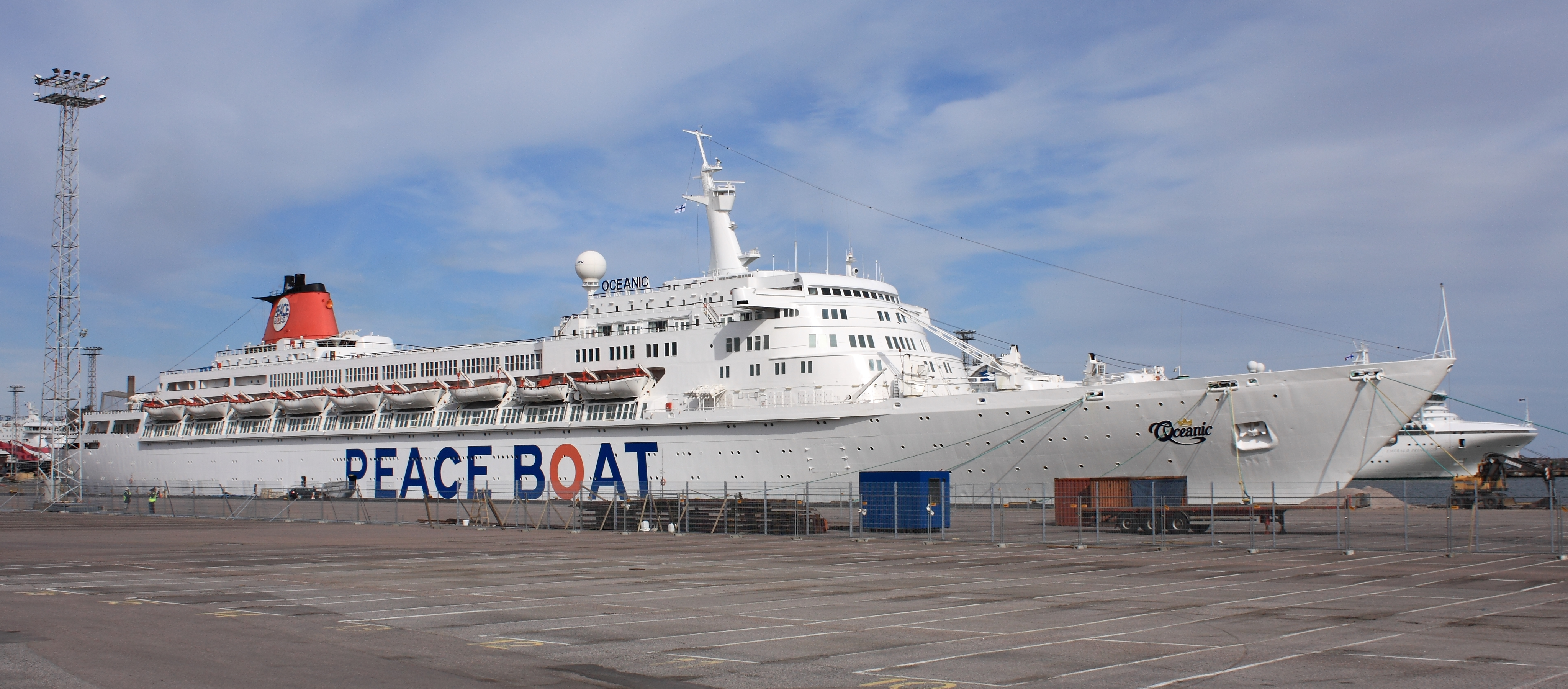 SS Oceanic in the port of Helsinki, in Jätkäsaari.